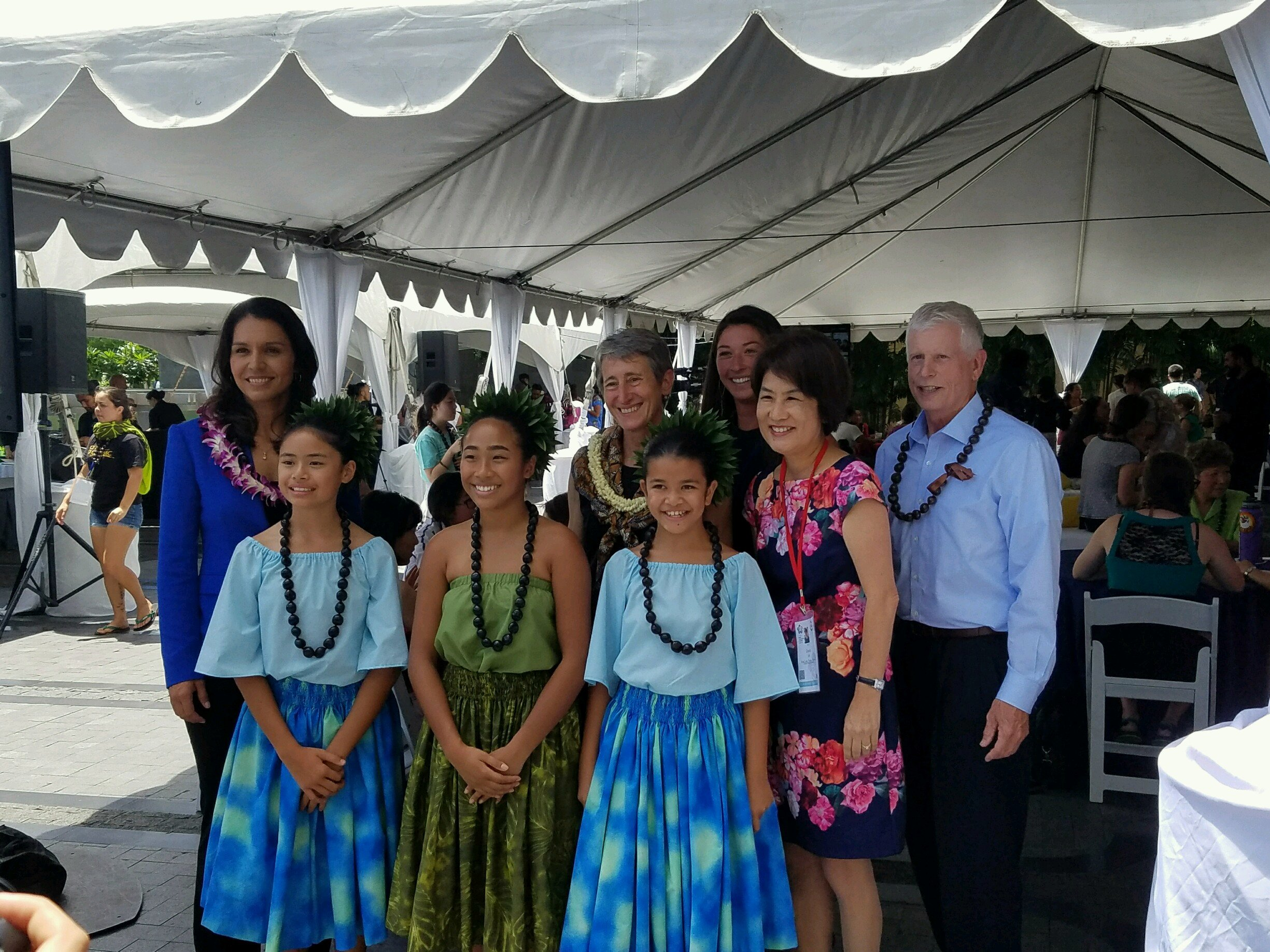 Rep. Gabbard, Secretary Jewell, First Lady Ige, and Chief Tidwell at IUCN 2016 Kupu Young Leaders event.